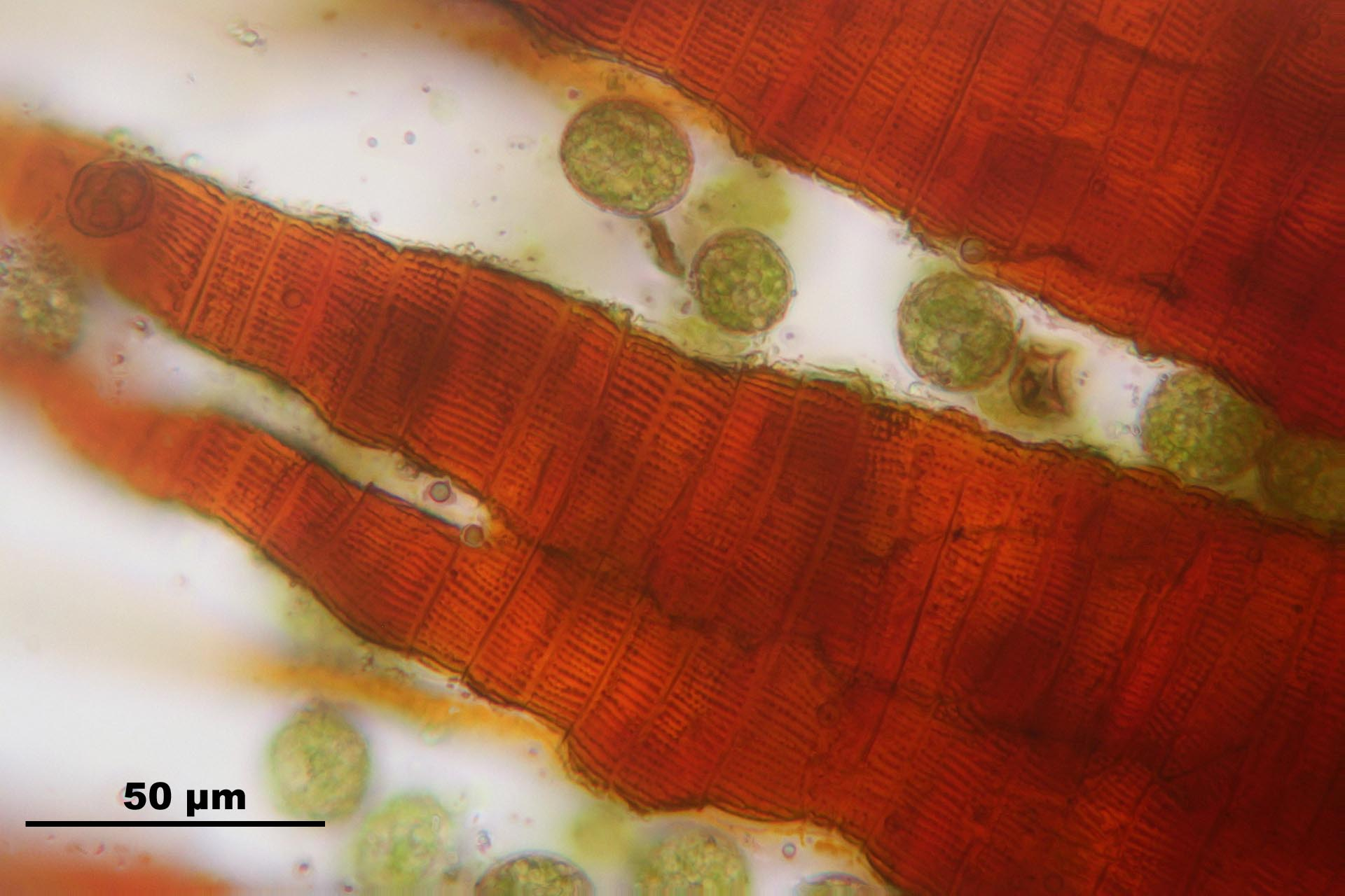 Dichodontium pellucidum